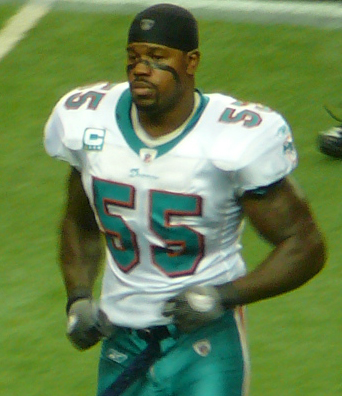 If used somewhere other than Wikipedia, Nelson, by name.